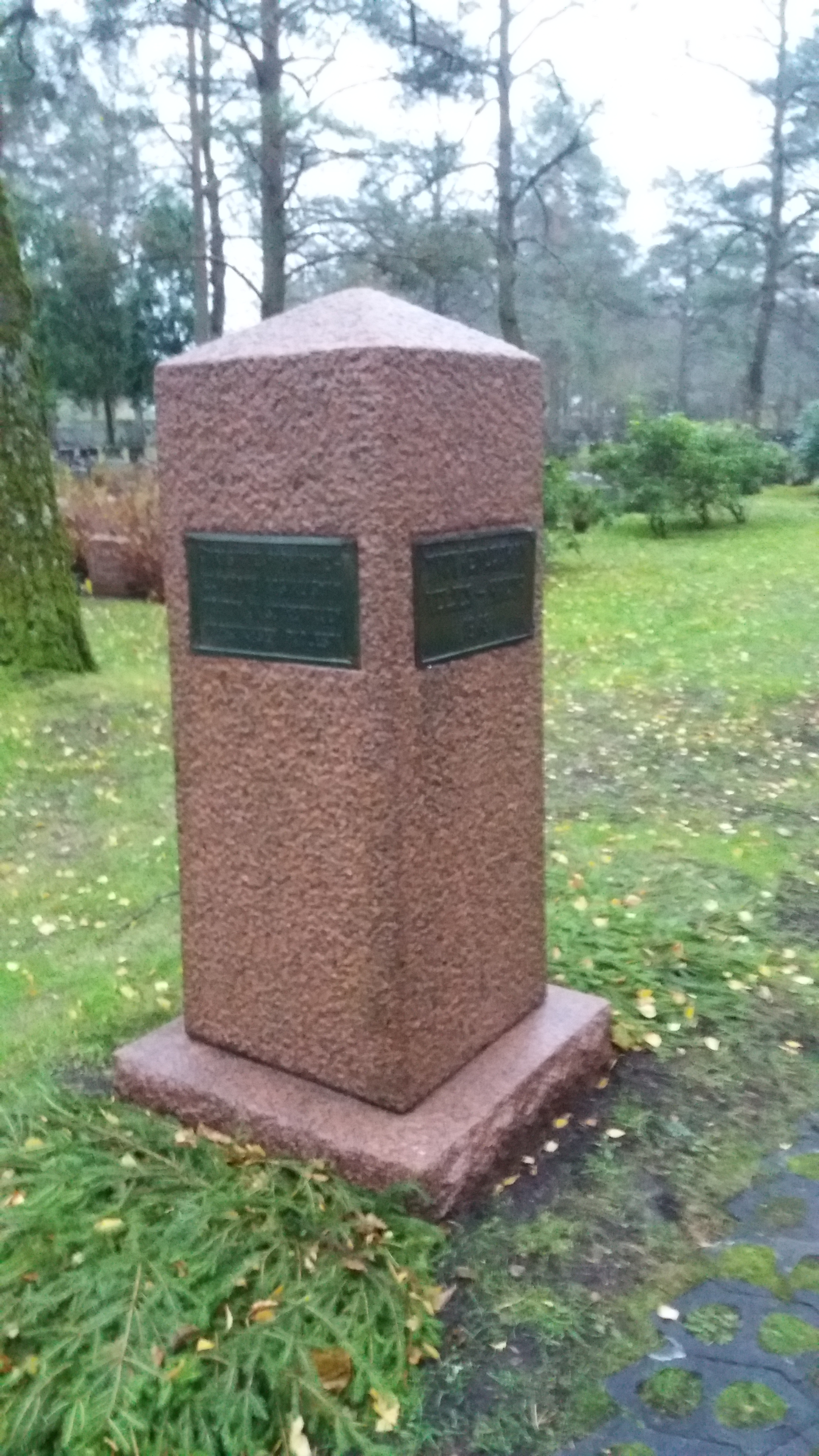 Mass grave of the 1918 Finnish Civil War Reds killed in the Turku prison camp. Turku Cemetery, Turku, Finland. The memorial was erected in 1945.